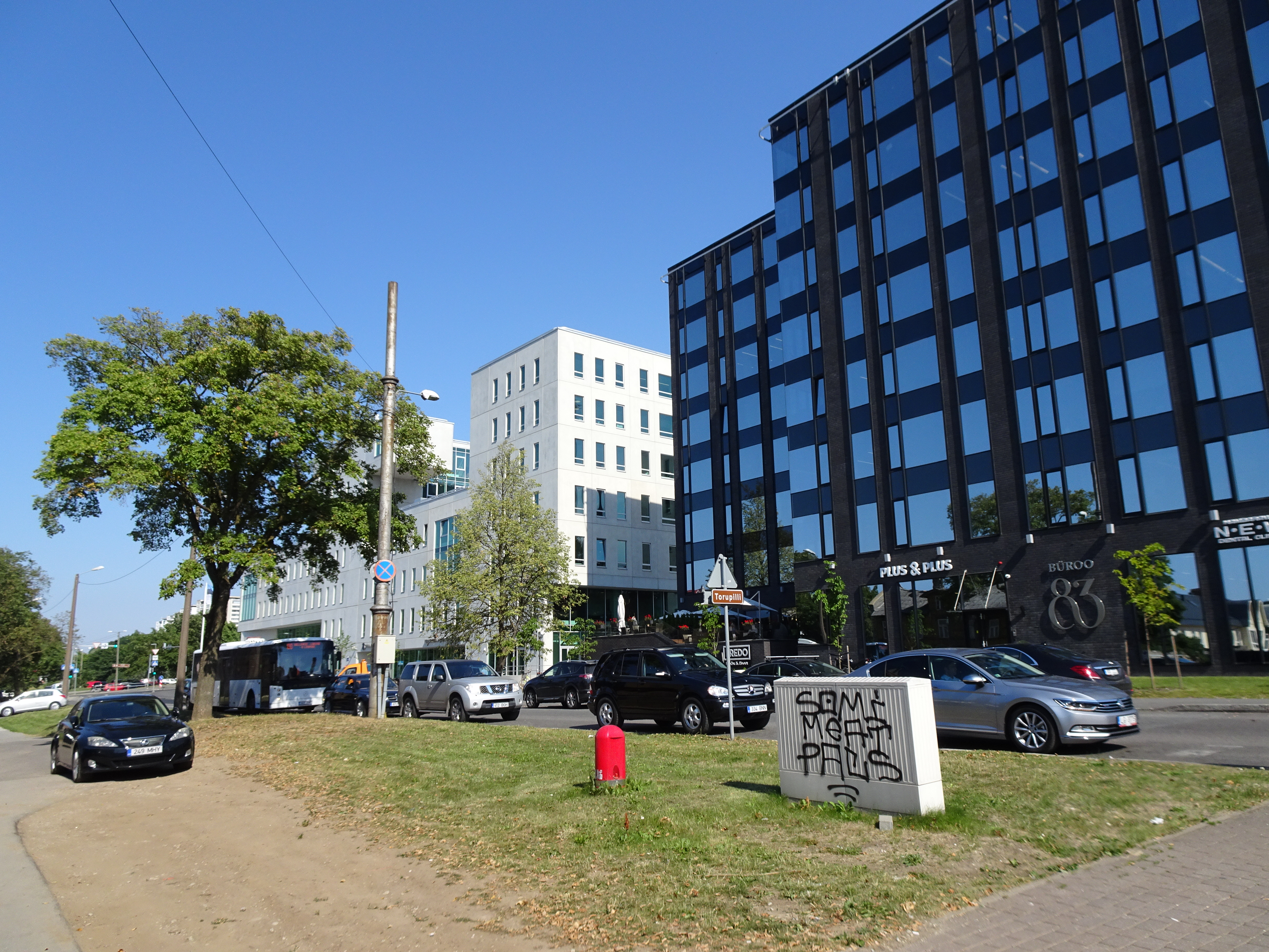 Lubja Street (Lubja tänav) in Tallinn, Estonia